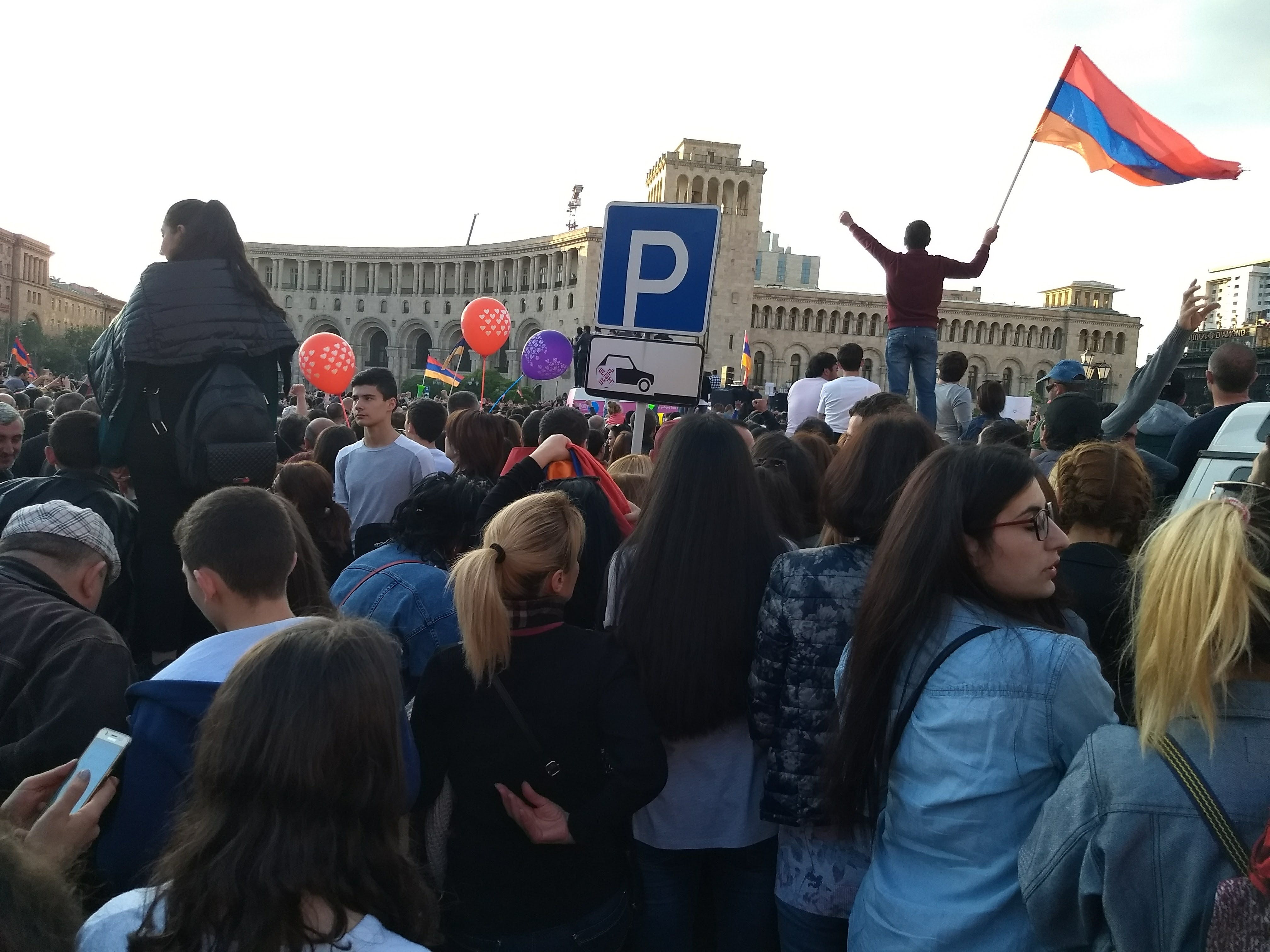 2018 Armenian revolution.